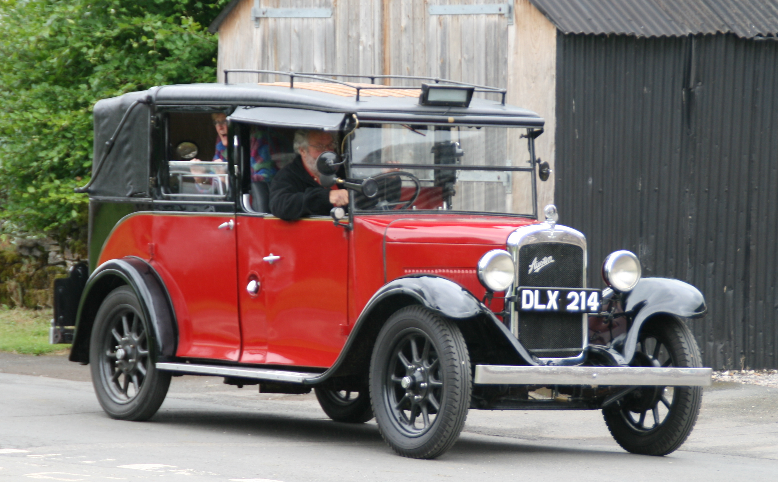 1937 Austin 12/4 Taxi